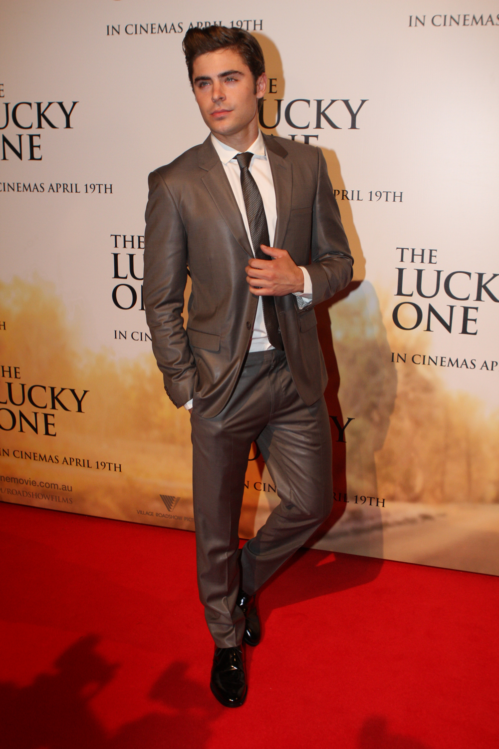 The Lucky One World Premiere At Bondi Juction, Sydney, Australia